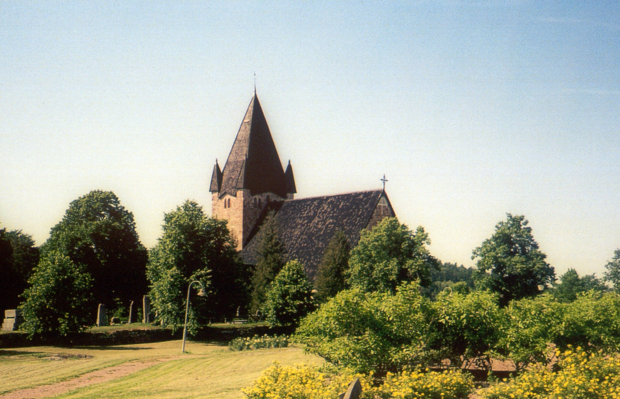 Exterior of the Finström Church in Finström, Åland, Finland